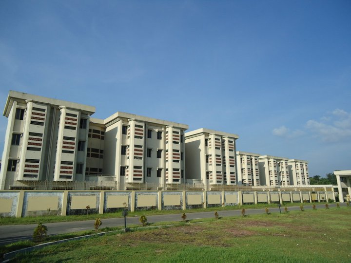 Cadets accomodation buildings (hostels), called houses; Feni Girl's Cadet College